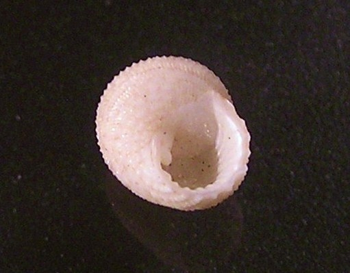 Perrinia concinna (A. Adams, 1864-f), a sea snail from the family Chilodontidae; Philippines